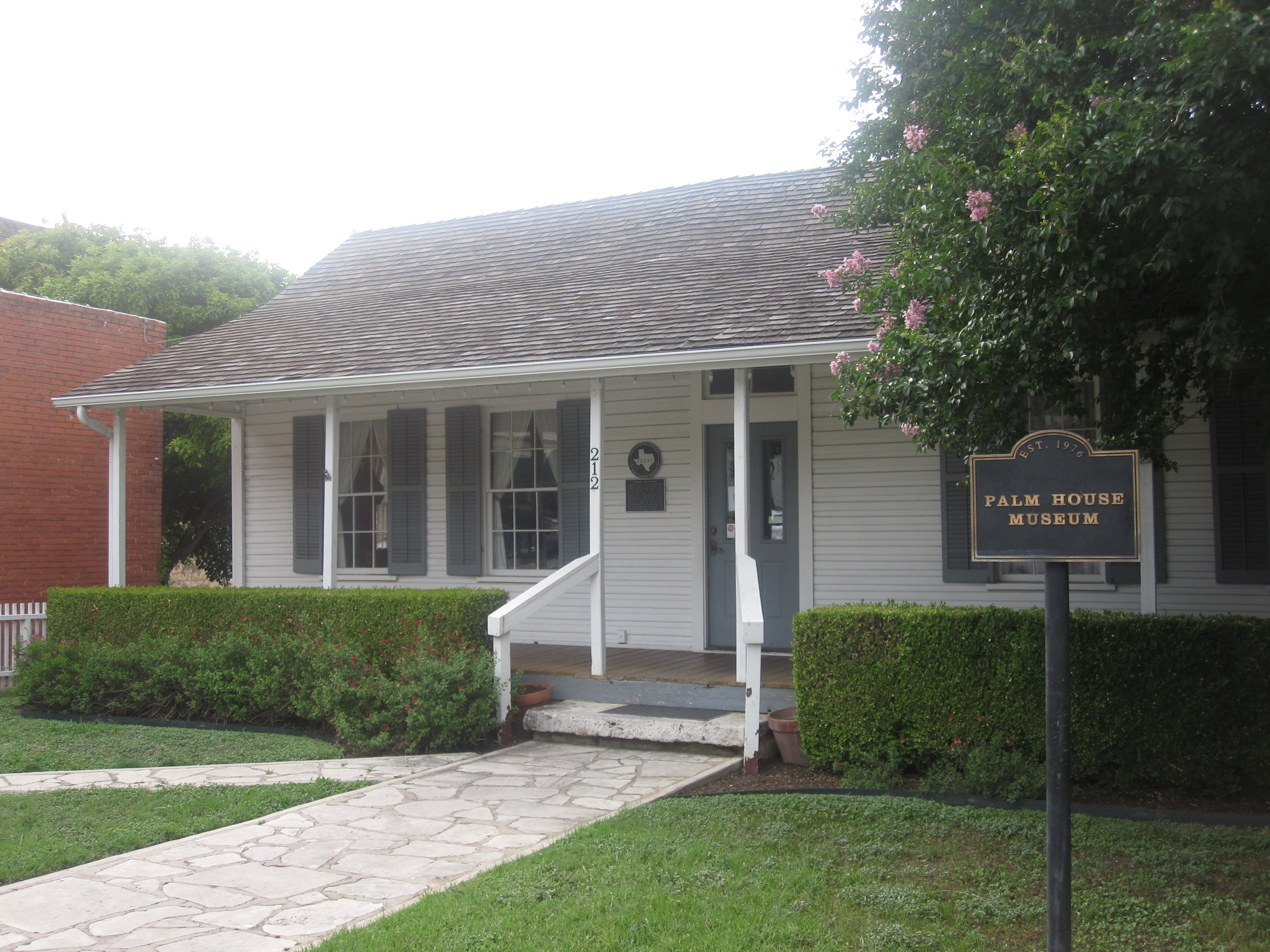 I took photo with Canon camera in Round Rock, TX.